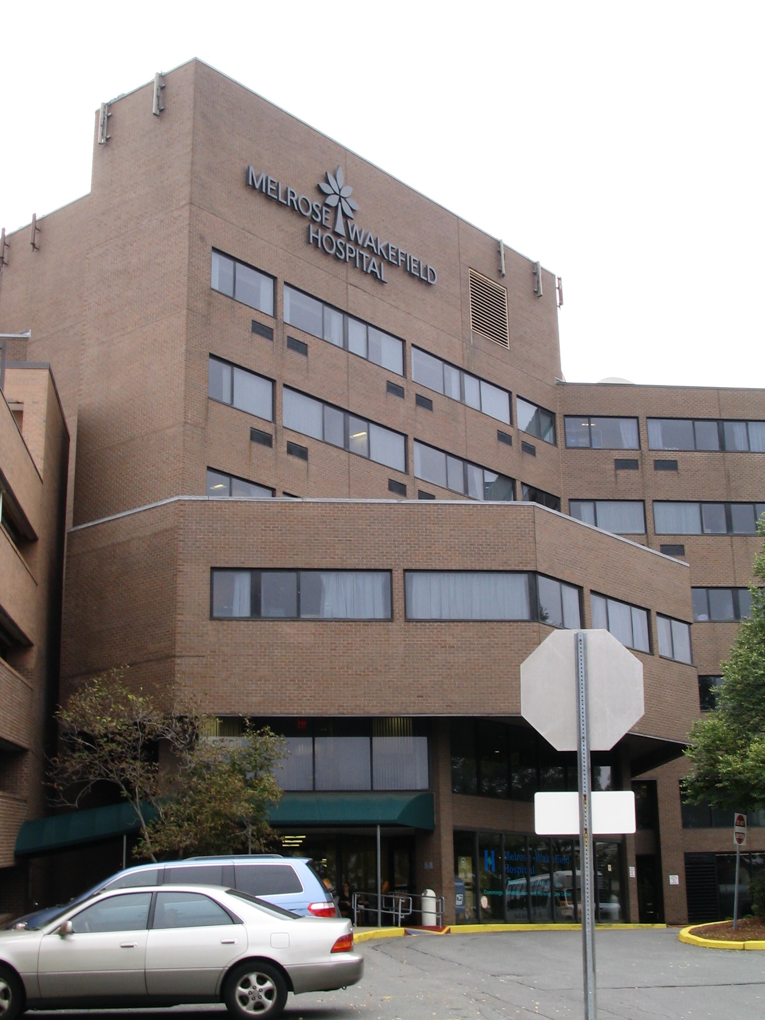 Main entrance of Melrose-Wakefield Hospital